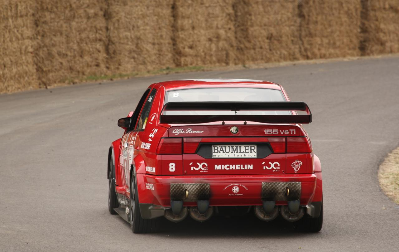 pictures from friday at fos